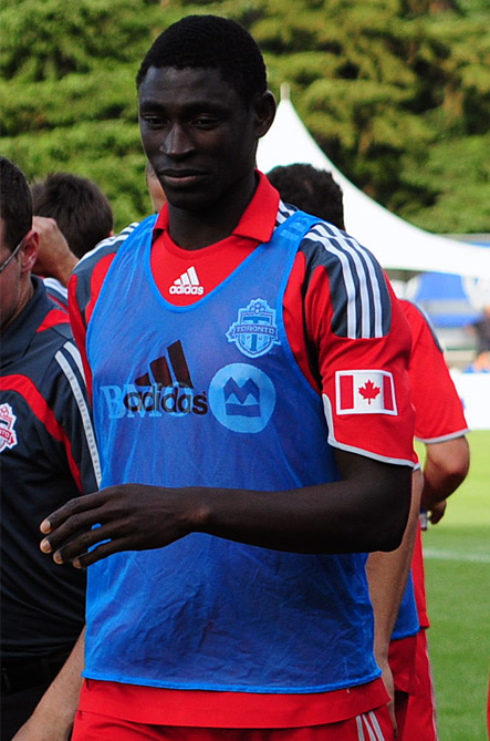 Photo of Gambian soccer player, Emmanuel Gómez.